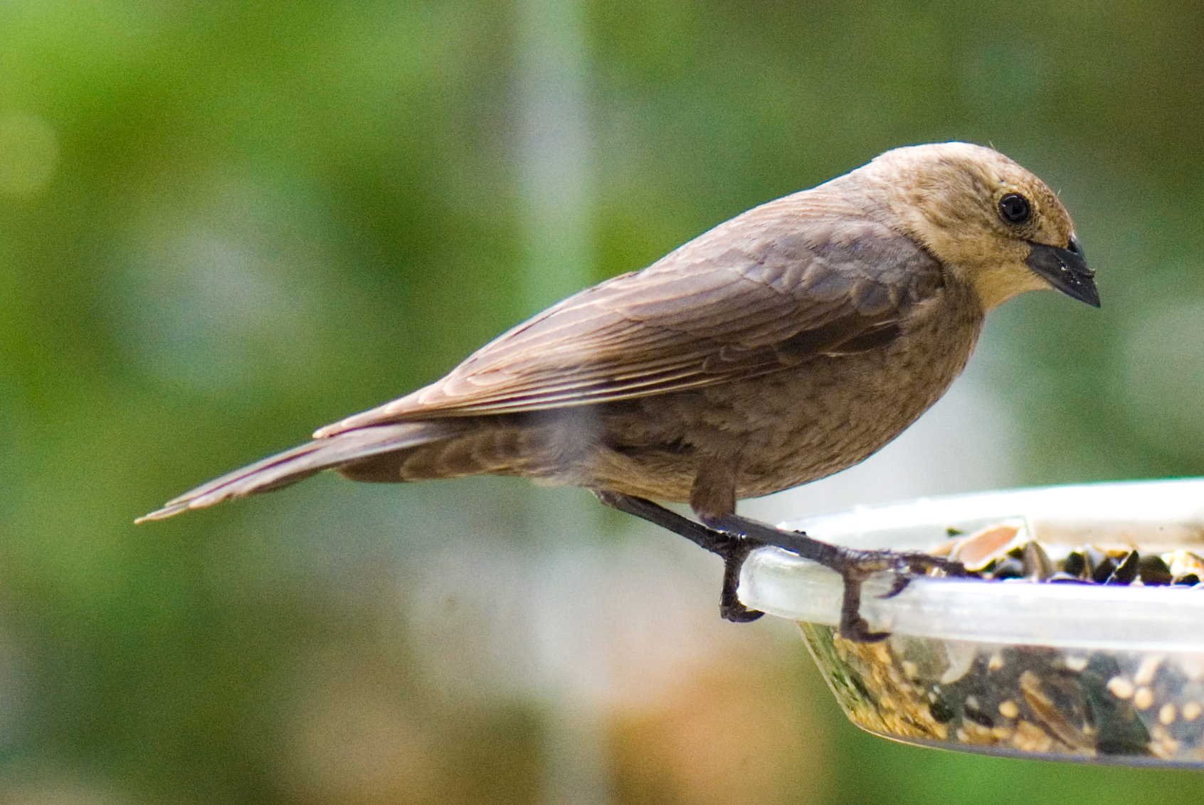 Female Brown-Headed Cowbird (Molothrus ater ).